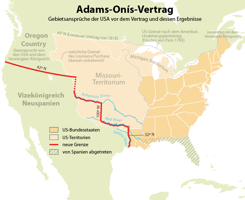 Map showing the results of the Adams-Onís Treaty of 1819